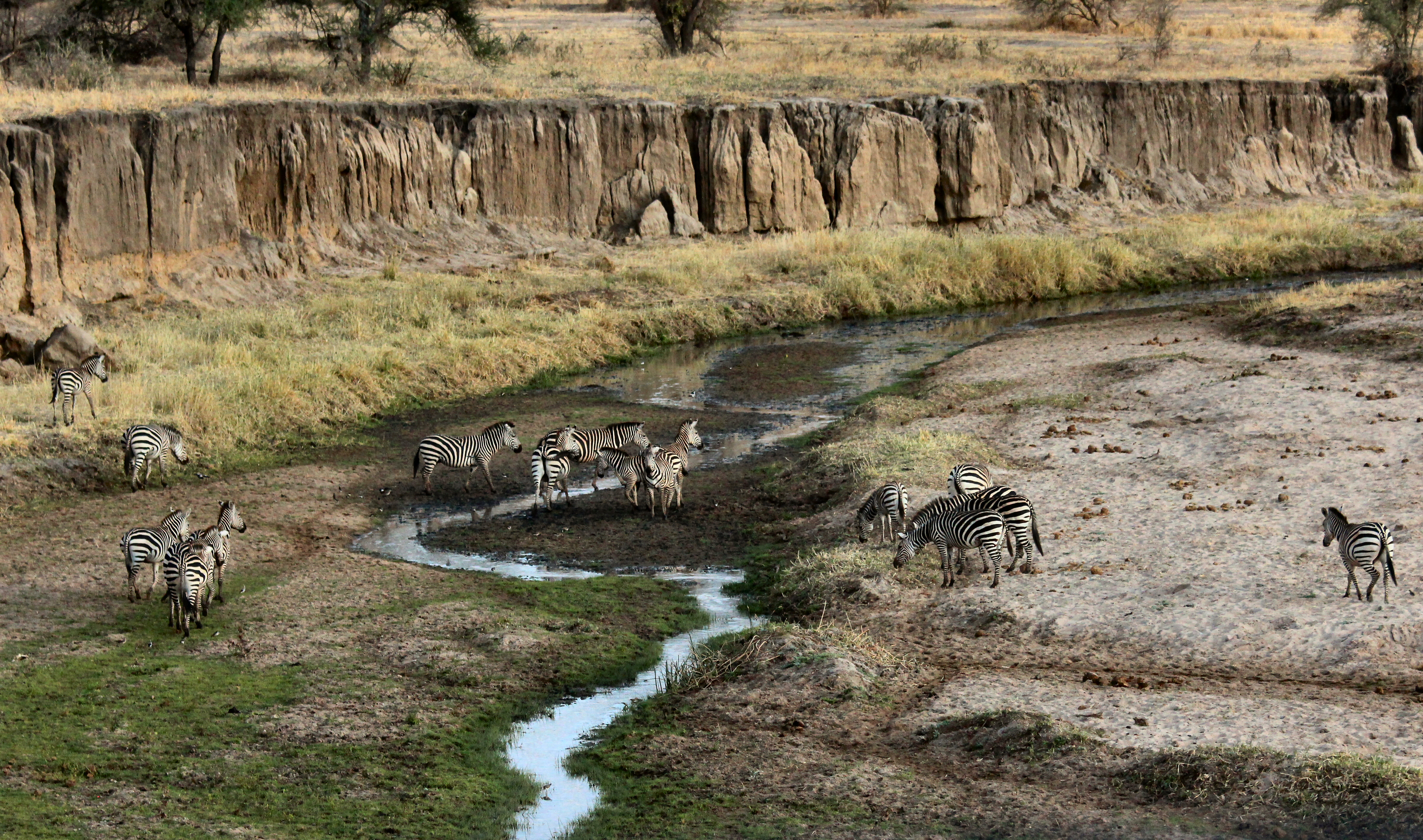 Tarangire National Park, Tanzania